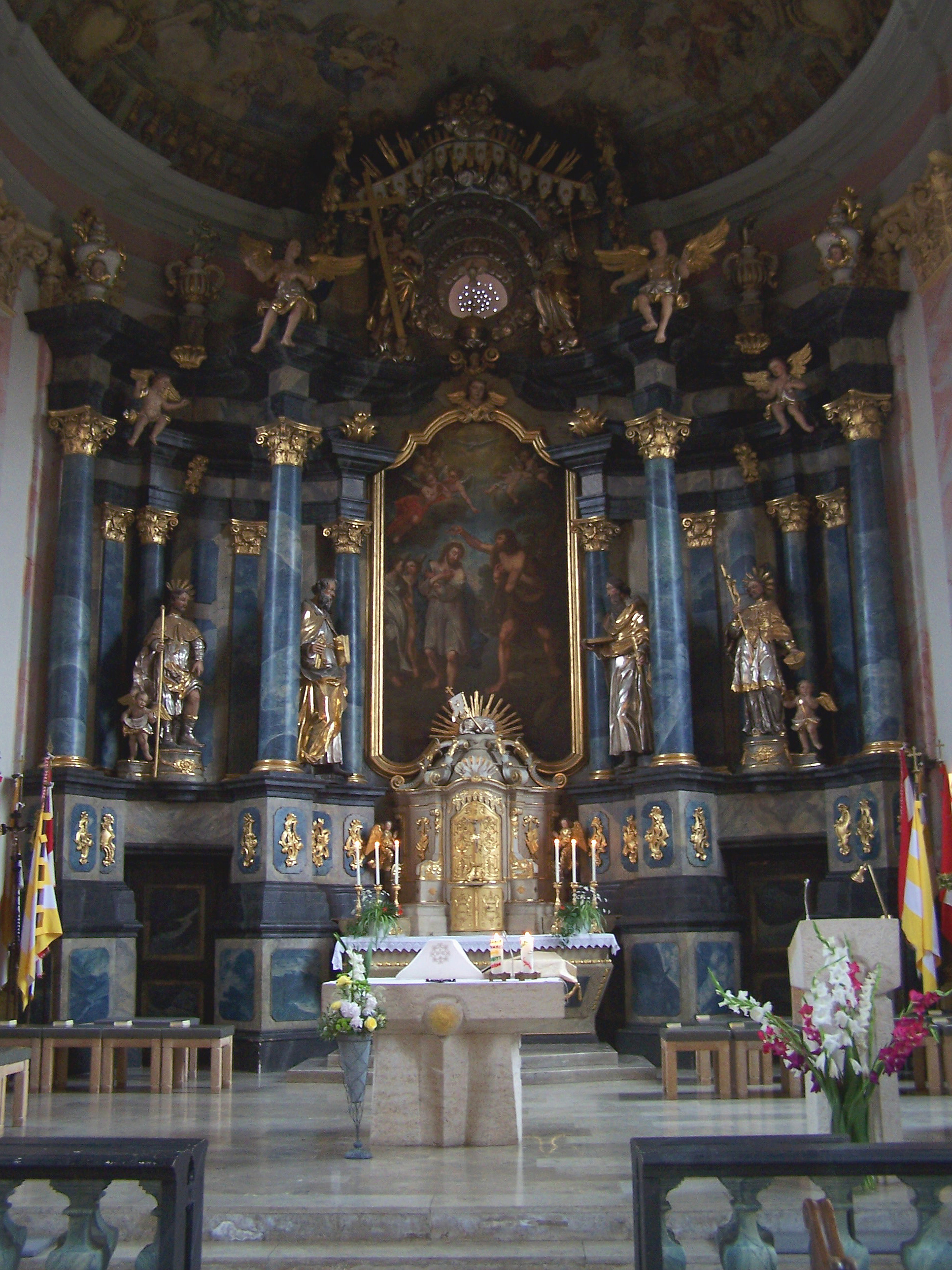 Main altar in the baroque catholic church St. John the Baptist in Mönchberg, July 2012